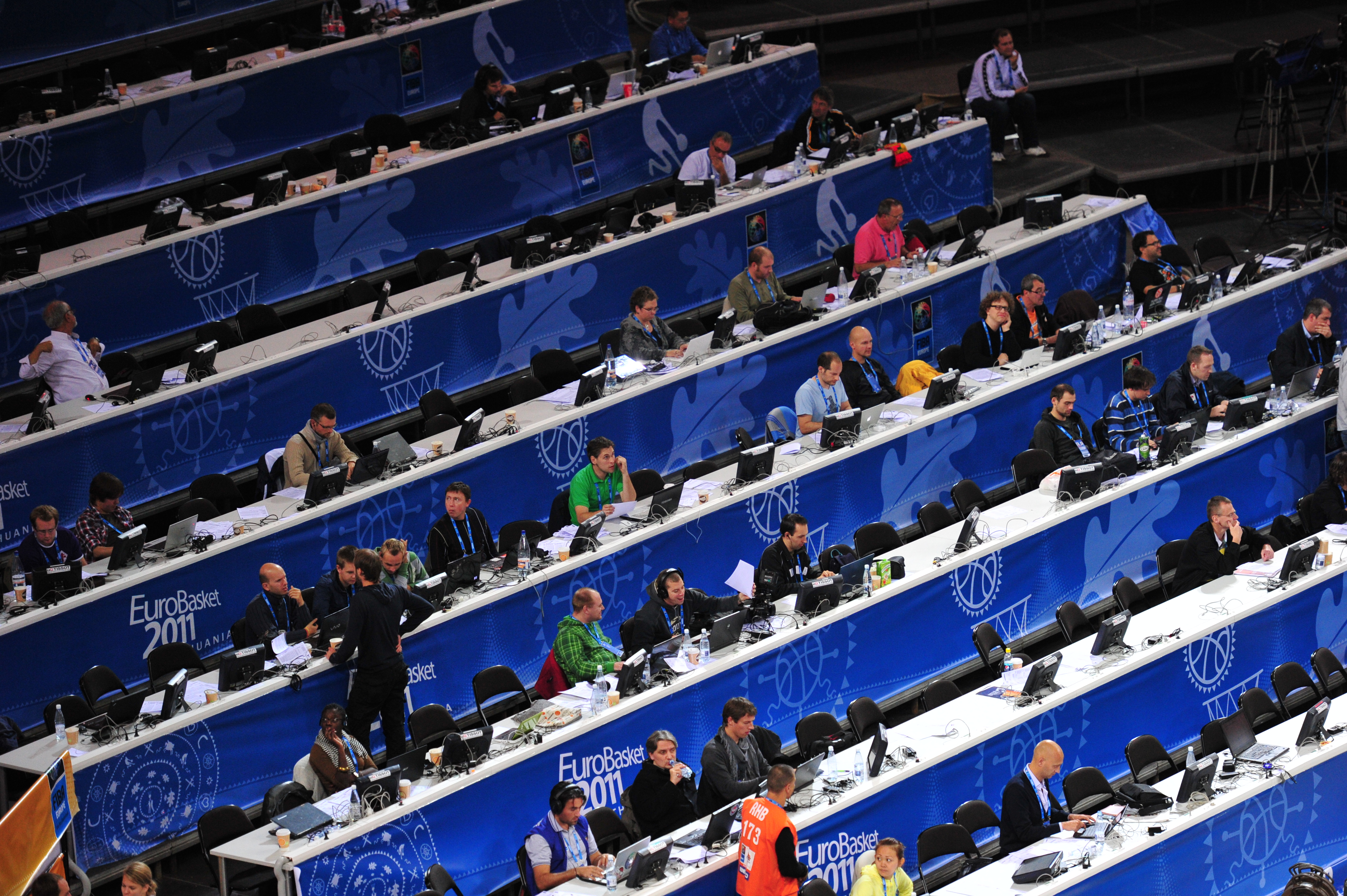 Place for TV commentators at EuroBasket 2011.